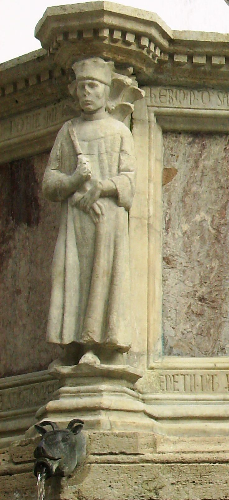 fontana Maggiore Ermanno di Sassoferrato